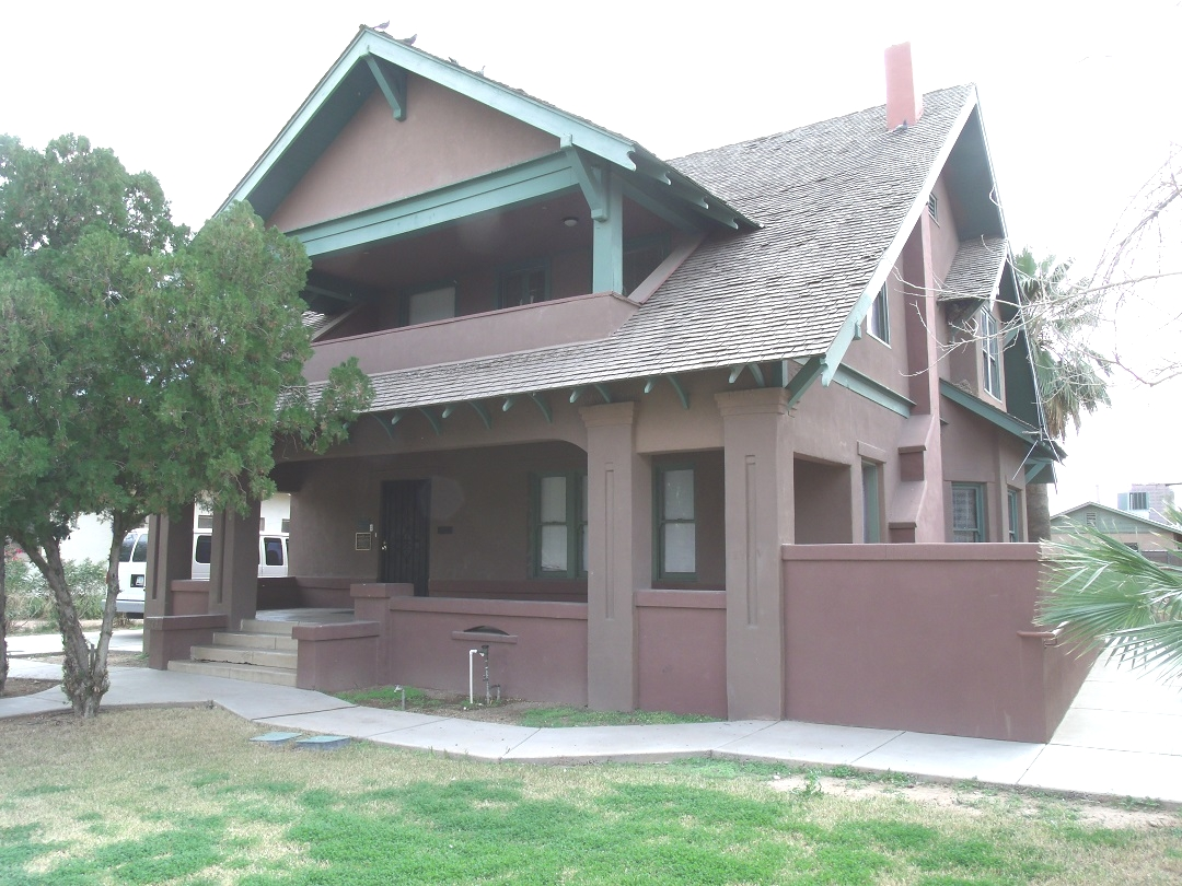 The Colonel James McClintock House was built in 1911 and is located at 323 E. Willetta St. in Phoenix Az. McClintock, whose full name was "James Henry McClintock", was a veteran of the United States Army who served in the Spanish-American War. He moved to Arizona and served as state historian from 1917 through 1922. He was also one of the founders of the Arizona Republican newspaper, now The Arizona Republic. Designated as a landmark with Historic Preservation-Landmark (HP-L) overlay zoning. Listed n the National Register of Historic Places on October 4, 1990. Reference #90001525.